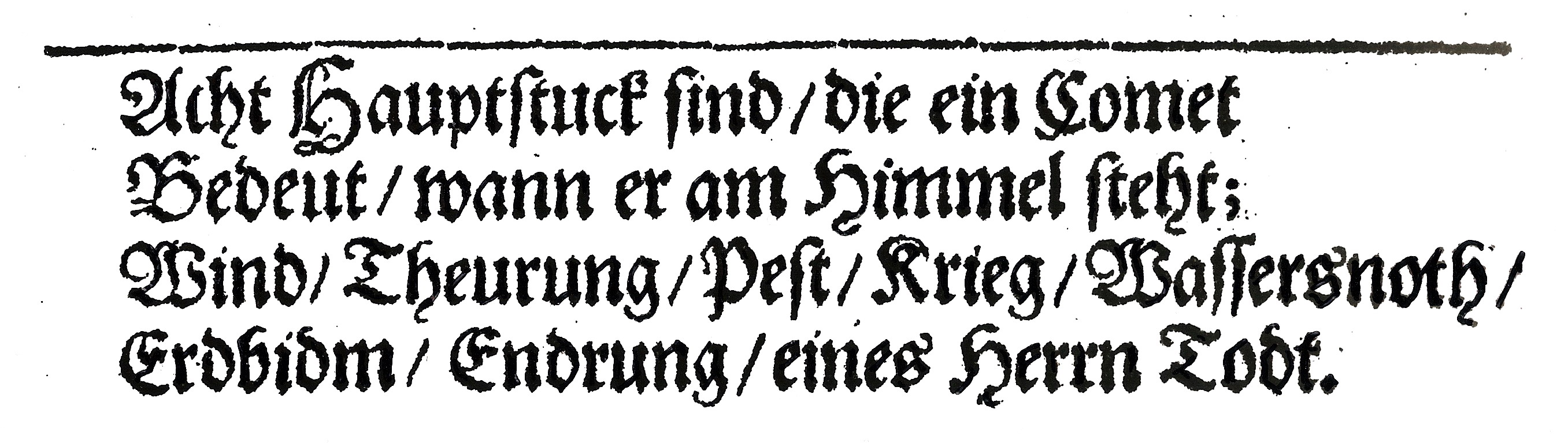 Early modern german text about effects of a comet